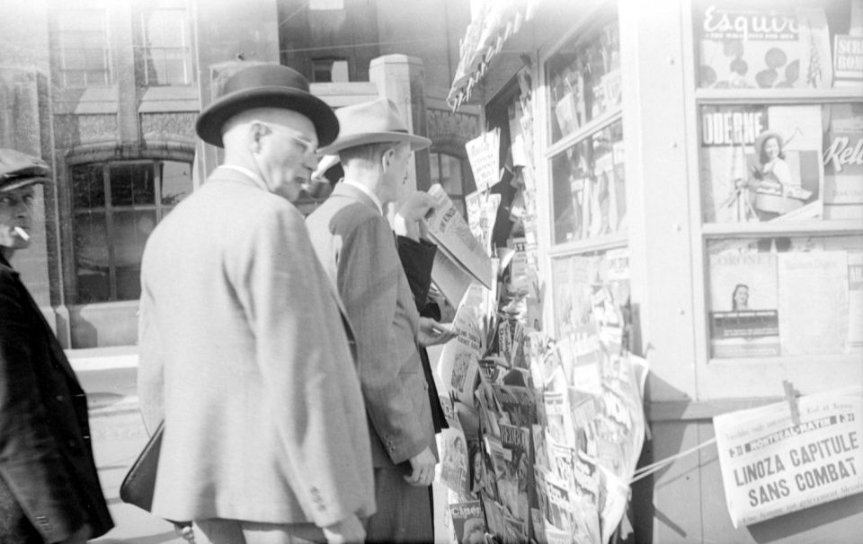 Passers buy newspapers in a newsstand in the Rosemont area of Montreal. A copy of the title to the Montreal-Matin a "Linoza surrendered without a fight."